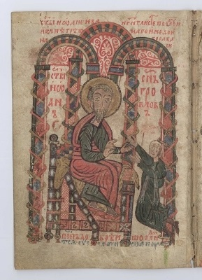 The parchment manuscript, Dobreisho Gospel from the first quarter of the 13th century. Illumination of saint John by priest Dobreisho (at the bottom: "Попъ Добрѣишо...").